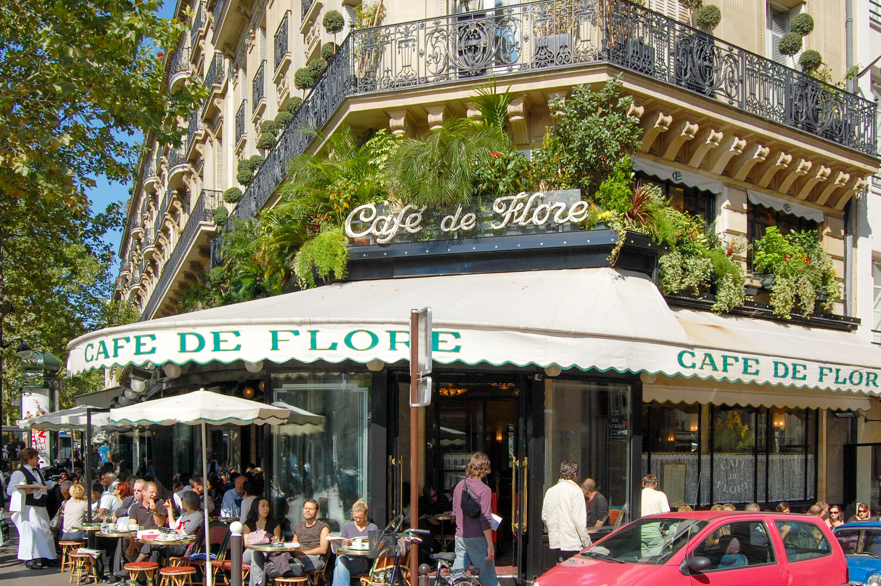 Café de Flore